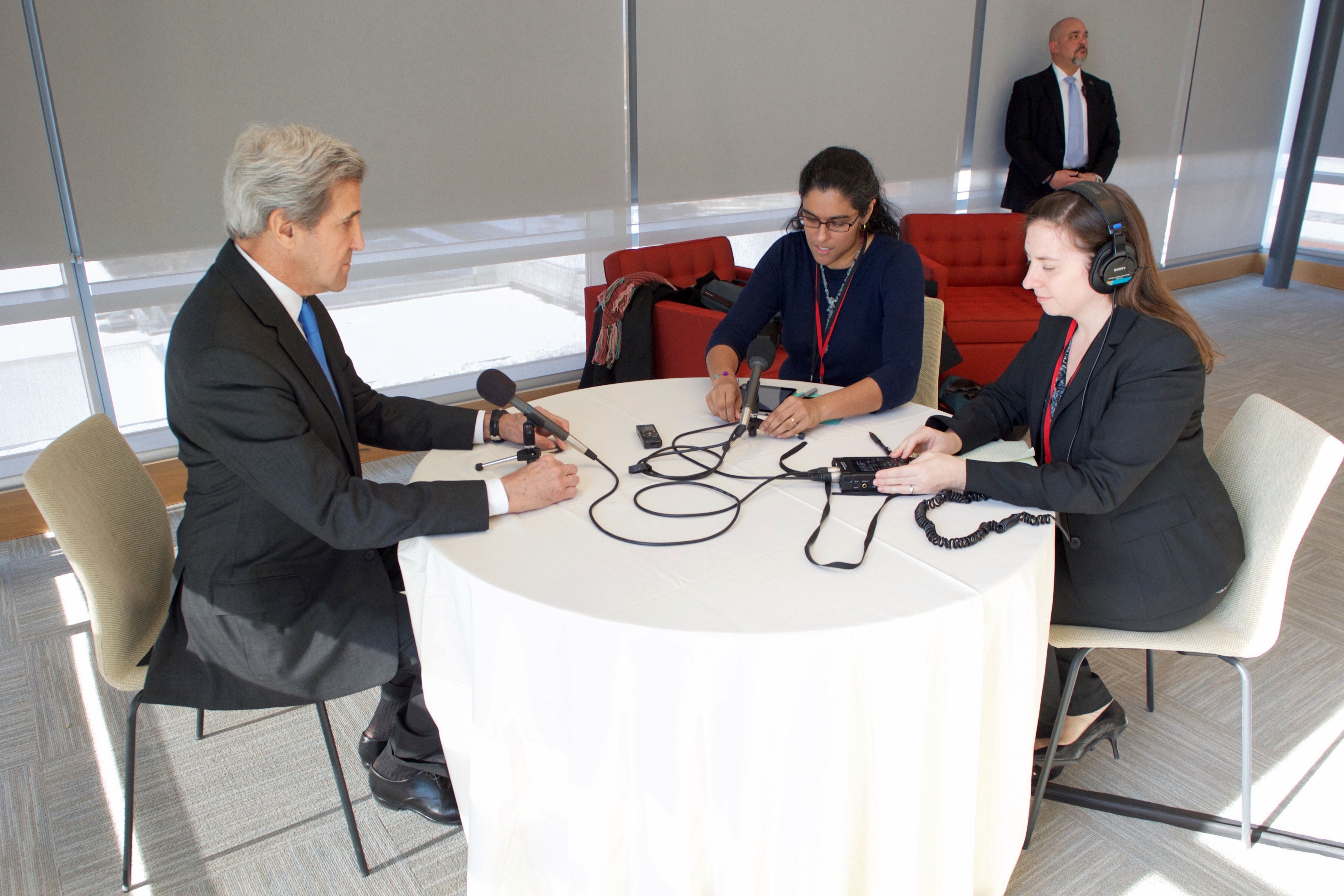 U.S. Secretary of State John Kerry conducts an interview with WBUR-FM host Meghna Chakrabarti (center) before delivering a speech focused on Obama administration climate change policy on January 9, 2016, during an appearance at the Massachusetts Institute of Technology Sloan School of Management in Cambridge, Massachusetts. [State Department photo/ Public Domain]